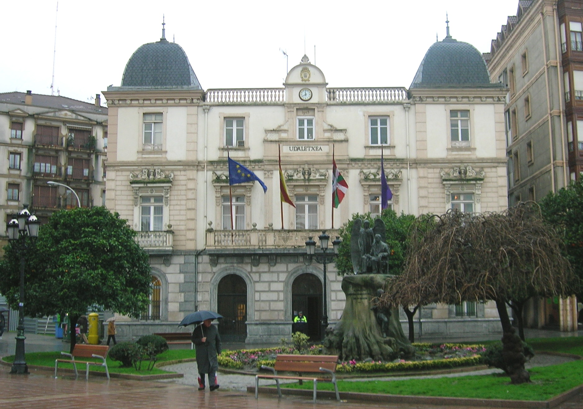 Town council hall of Santurtzi, Biscay.